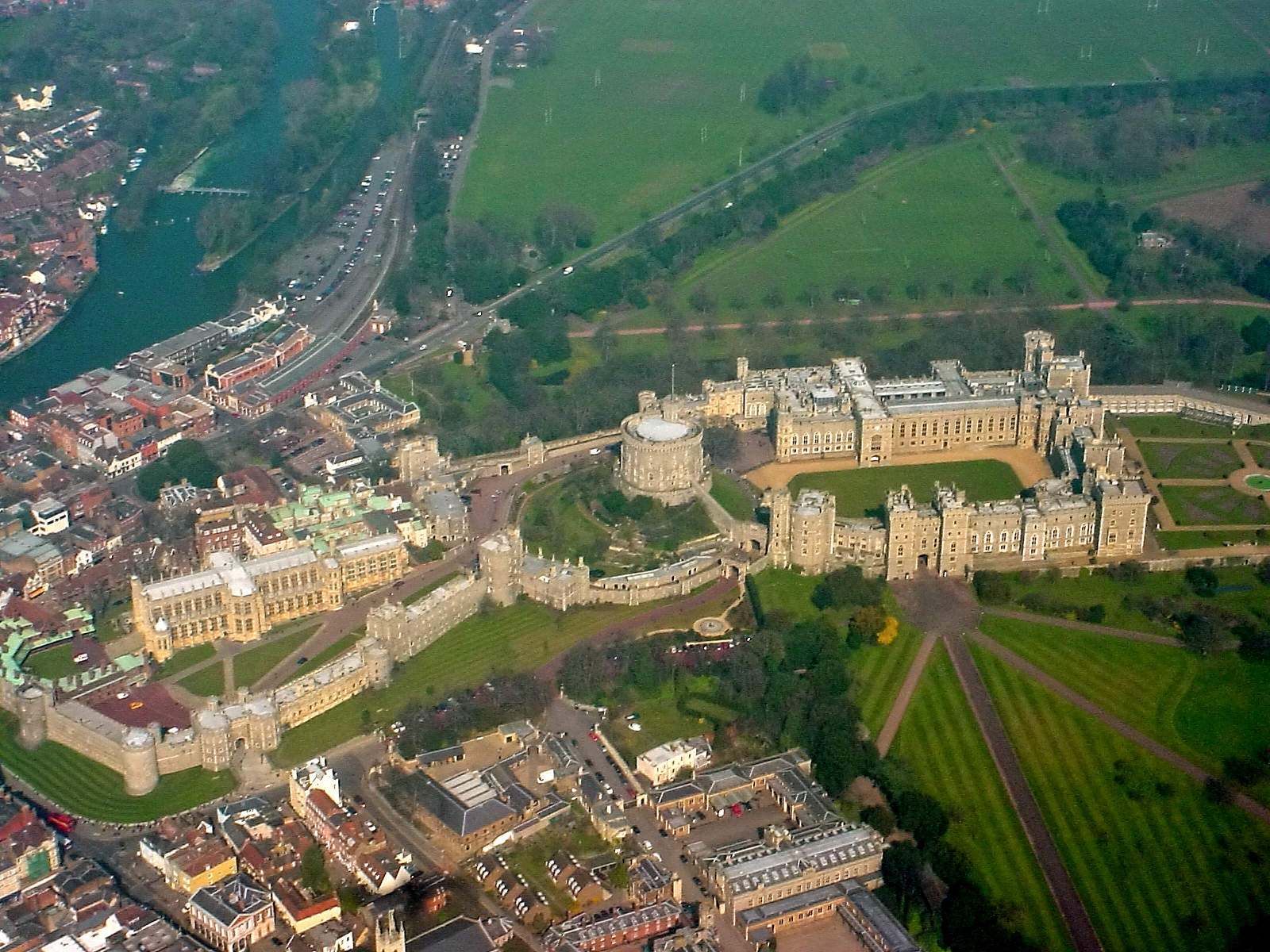 Windsor castle from the air